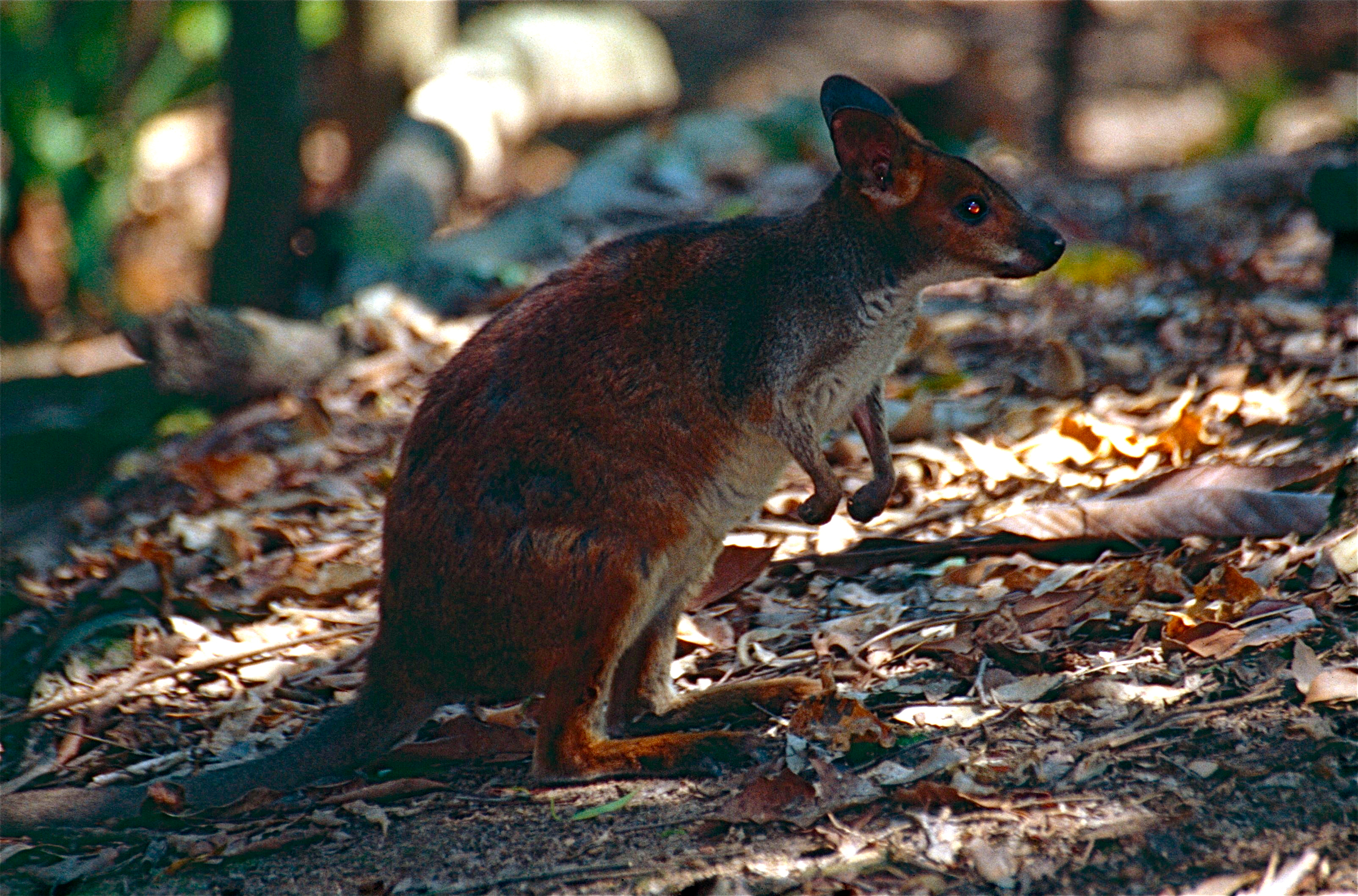 David Fleay Wildlife Park, Burleigh Heads, Gold Coast, South Queensland, AUSTRALIA Scanned Slide from Dec 2000